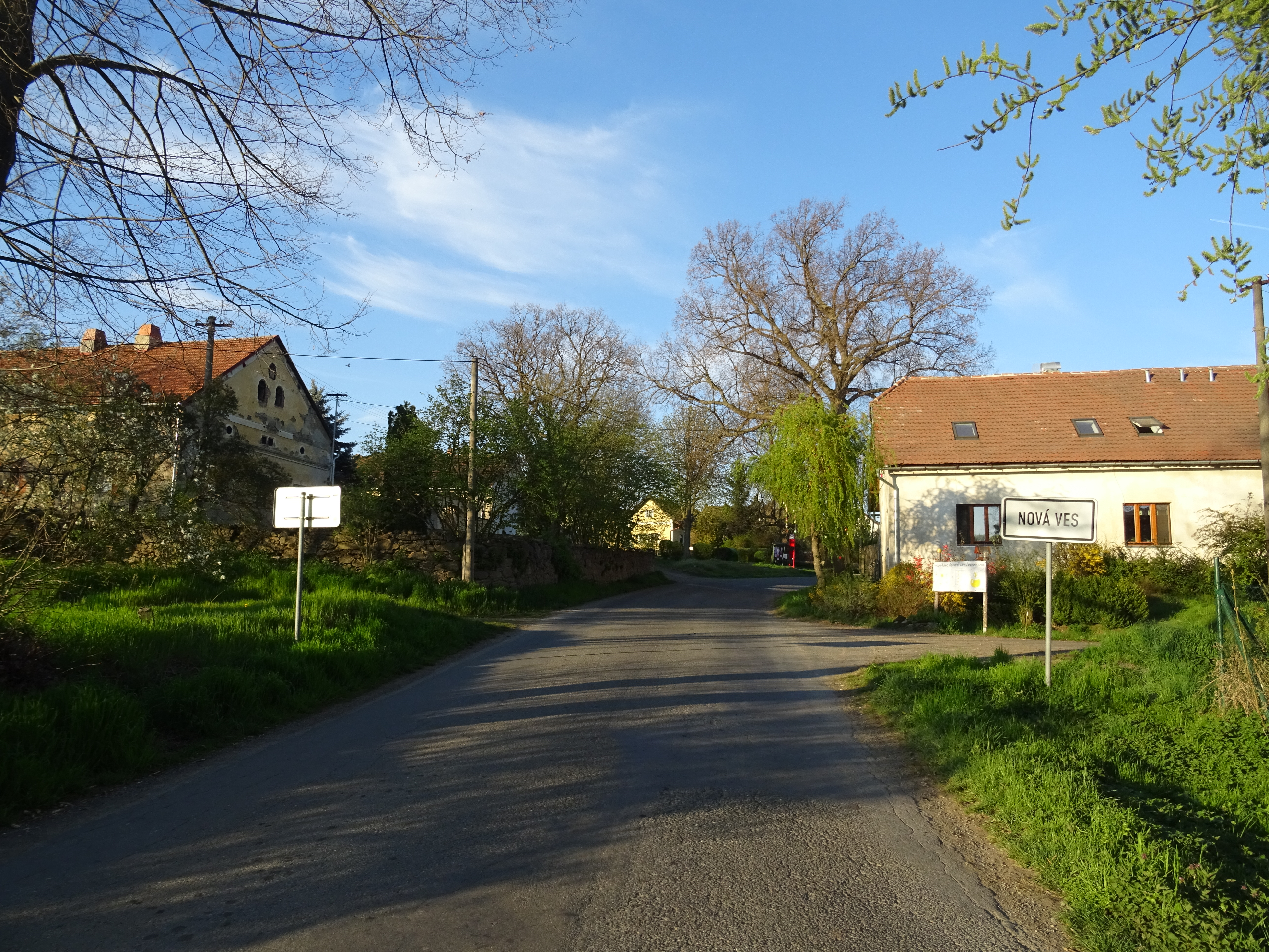 This photograph was created as a part of Wikiexpedition Mladá Vožice, a project supported by Wikimedia Foundation grant.